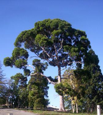 Lemon Scented Gum, Ringwood East, Vic HelloMojo 09:23, 1 April 2007 (UTC)